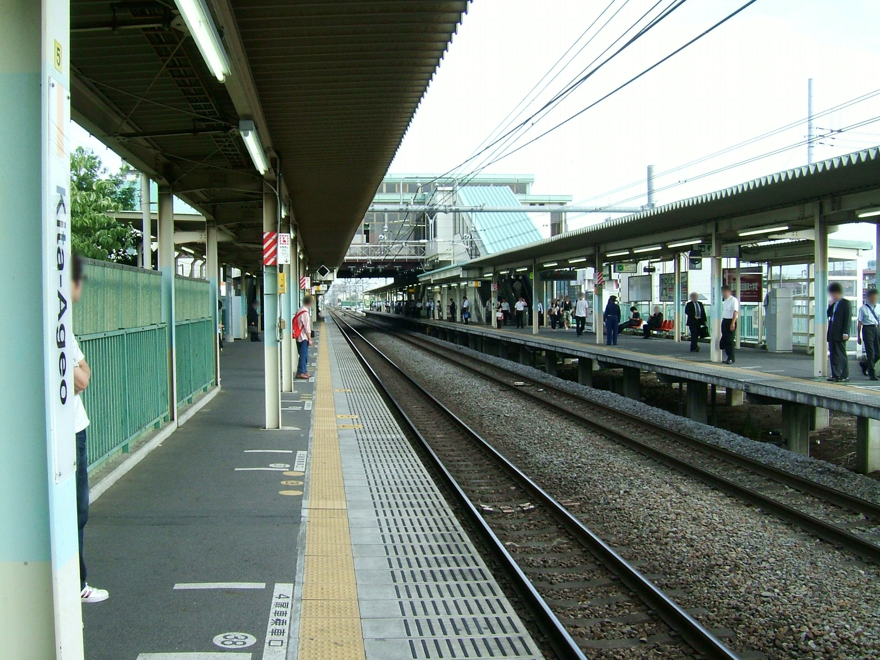 Kita-Ageo Station platform (East Japan Railway Takasaki Line)